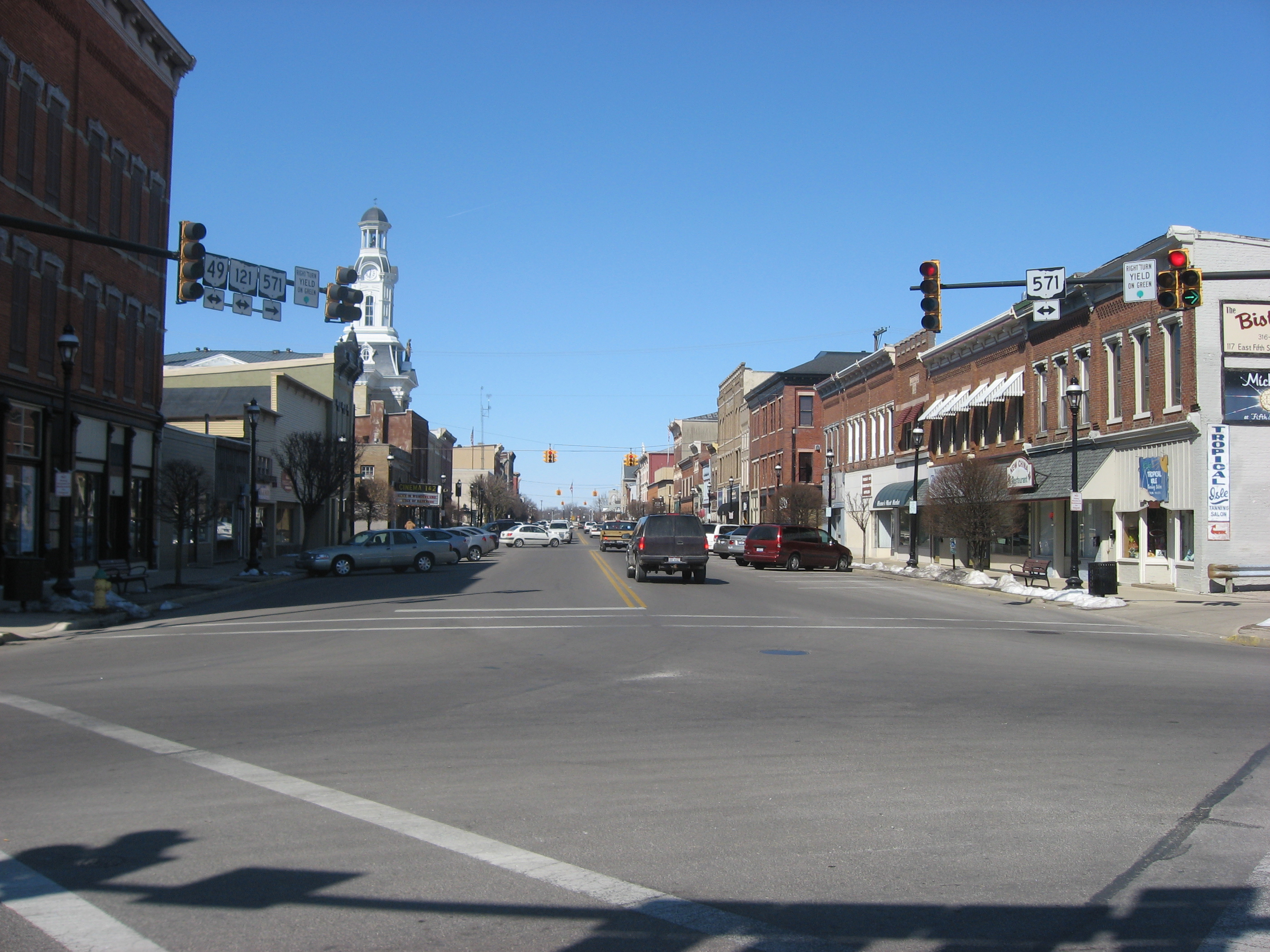 Looking northwest along South Broadway (State Routes 49, 121, and 571) from the Main Street intersection in downtown Greenville, Ohio, United States. Note the tower of the Darke County Courthouse on the left side of the picture. This block of South Broadway is part of the Greenville South Broadway Commercial District, a historic district that is listed on the National Register of Historic Places.